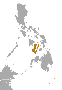 Philippine Tube-nosed Fruit Bat (Nyctimene rabori) range